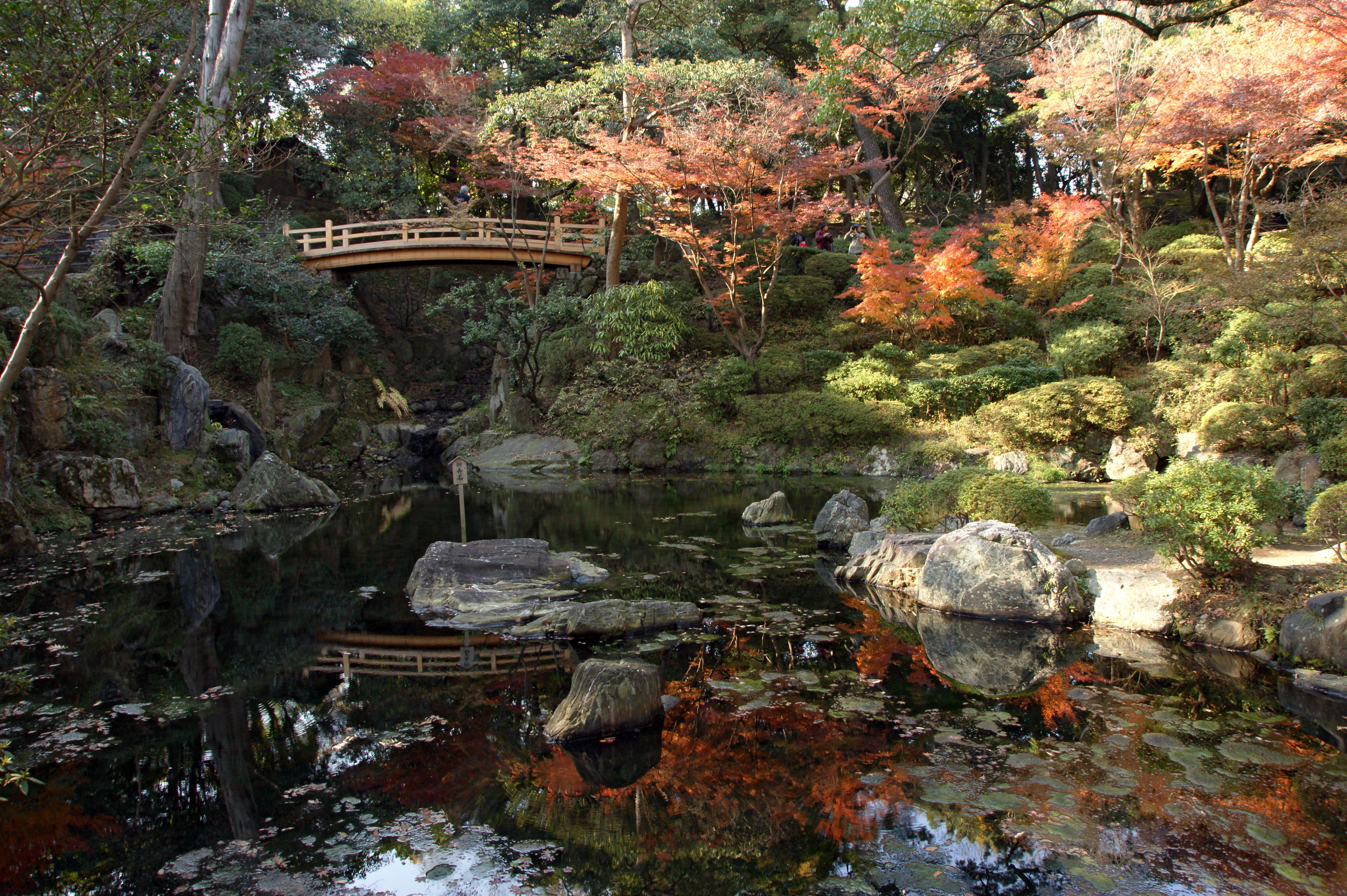 Wakayama Castle Nishinomaru Garden, Wakayama, Wakayama prefecture, Japan